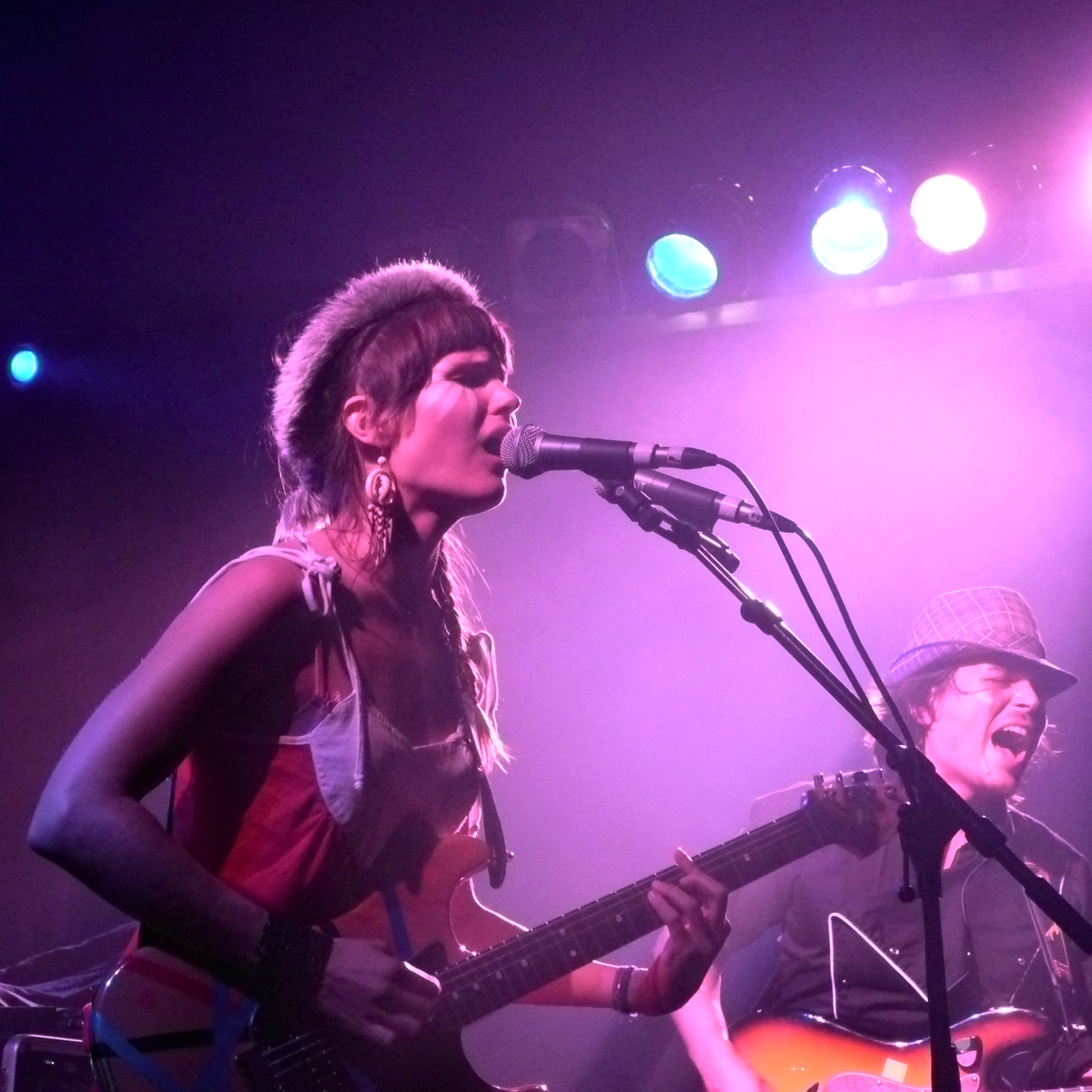 The Dø at Club 106 (Rouen, France), the Novembre 17th 2007